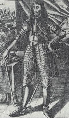 Wolfgang von Hohenlohe, second commander in the Battle of Saint Gotthard